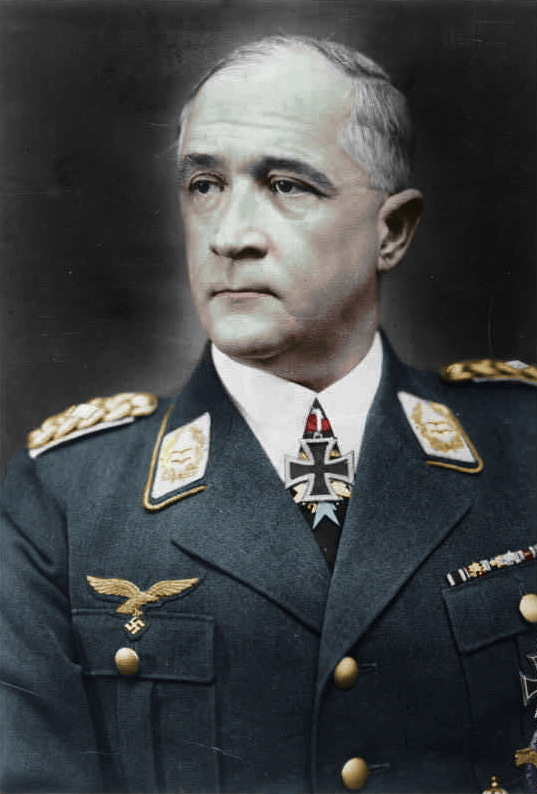 Robert Ritter von Greim. Colored photograh.